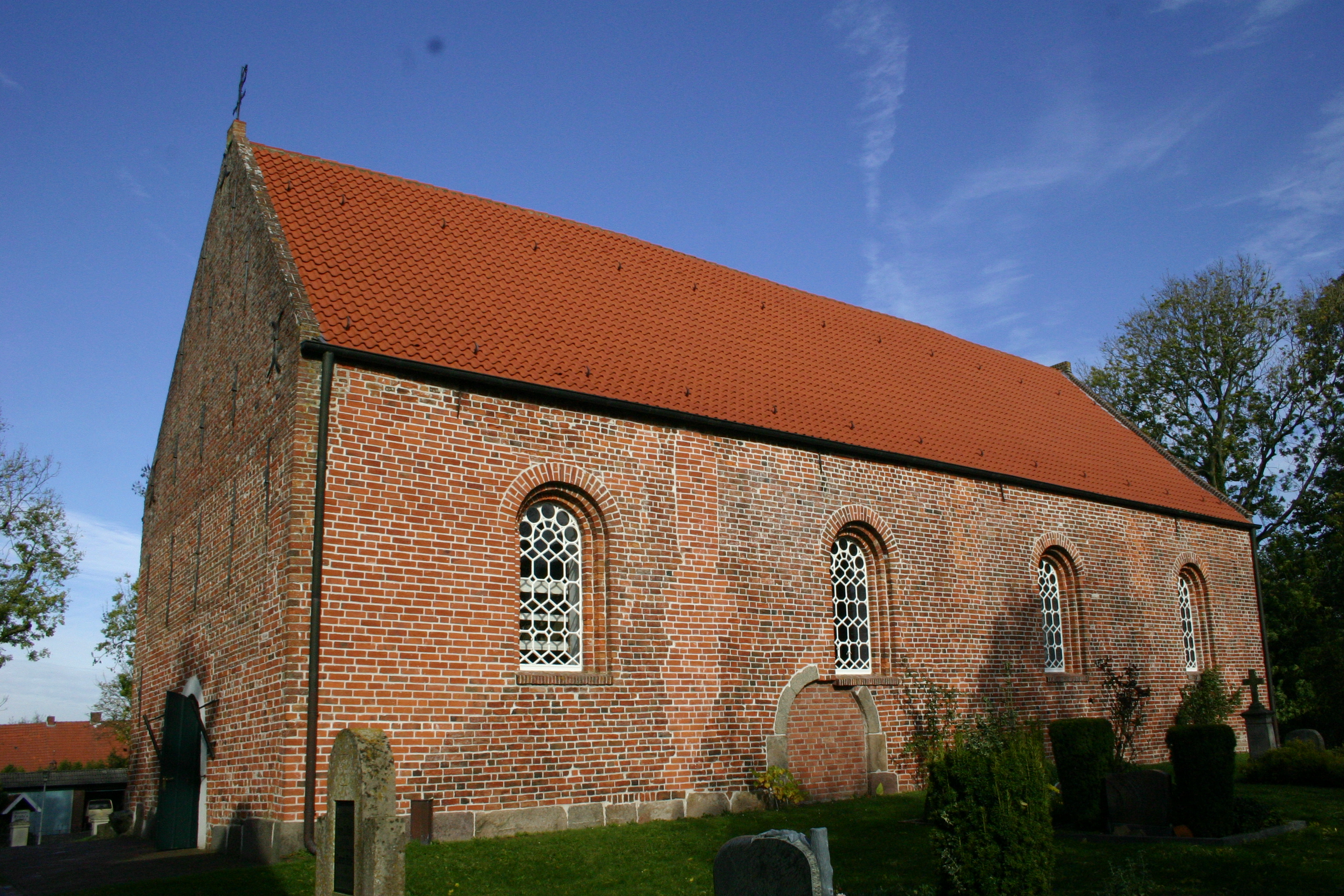 Church in Dunum (district of Wittmund, East Frisia, Germany)